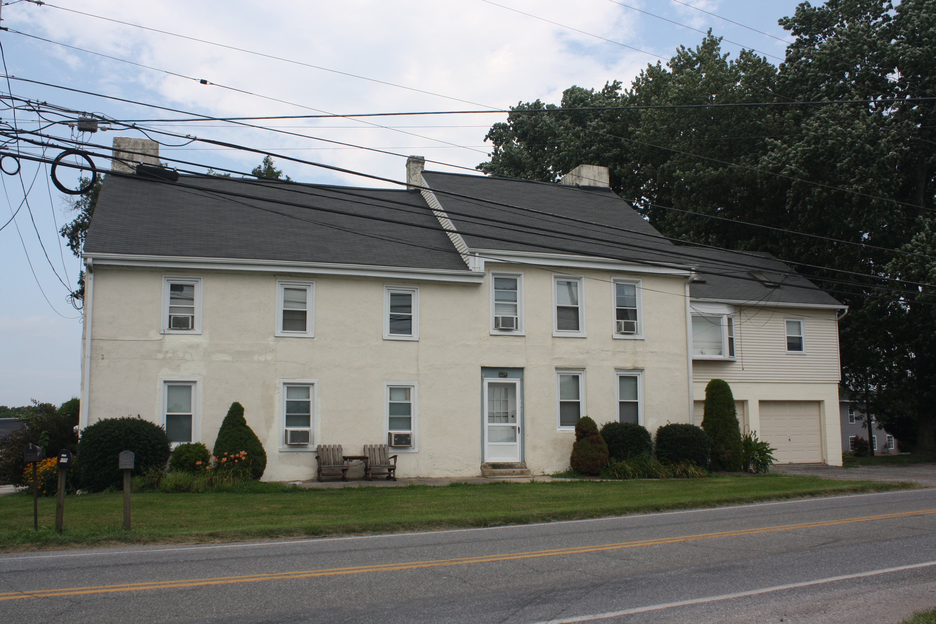 Philip Dougherty Tavern, also known as the Humphreyville Hotel, is a historic inn and tavern located in East Fallowfield Township, Chester County, Pennsylvania.